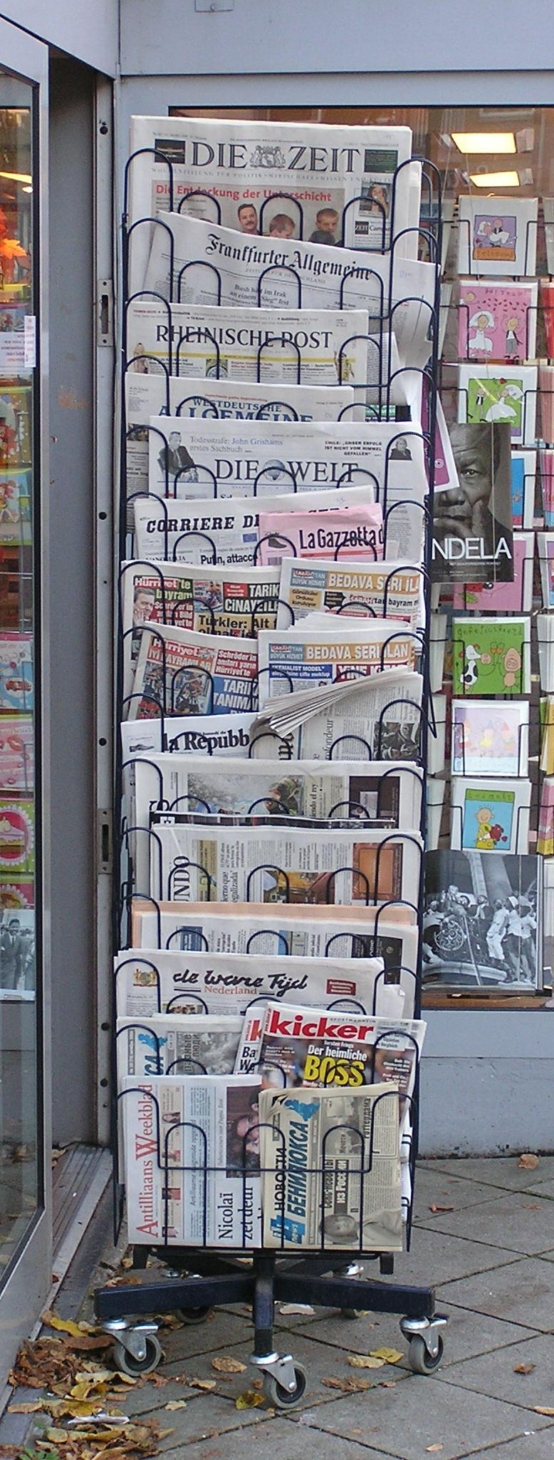 Foreign newspapers